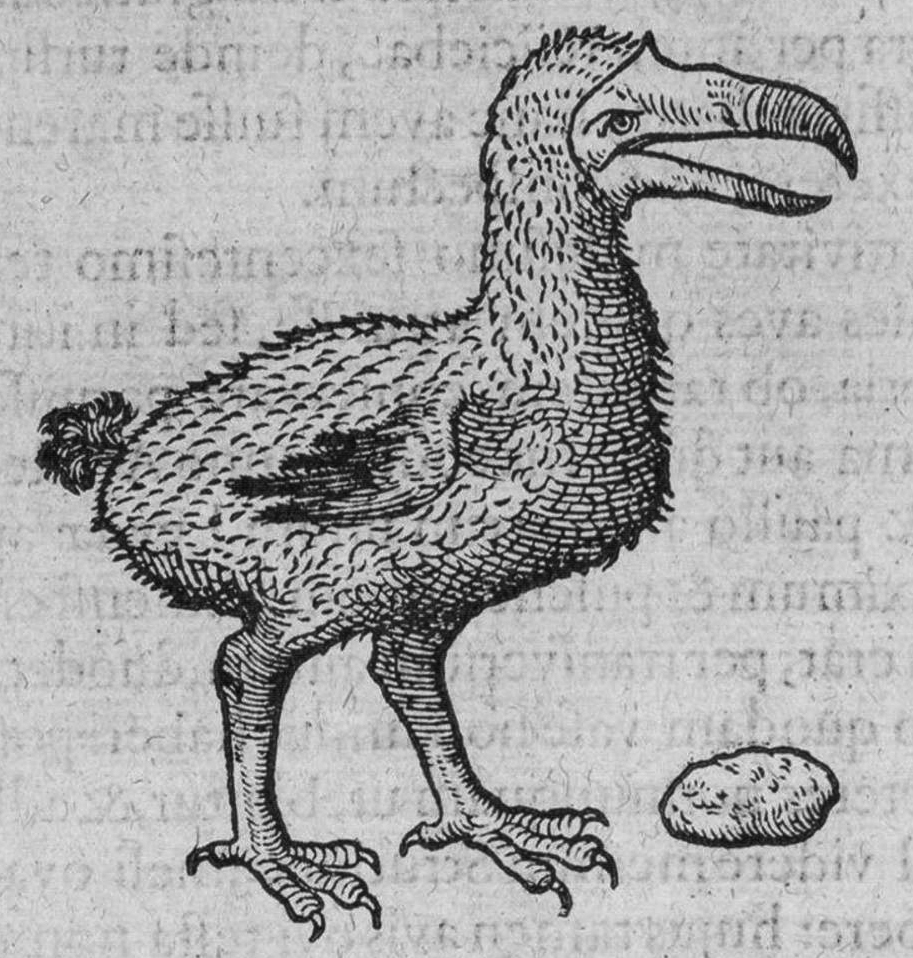 Illustration of a dodo and its gizzard stone, copied from an illustration in the journal of van Neck, which is now missing.